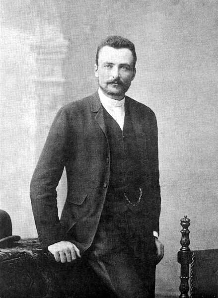 Istvan Tisza. Oxford University, United Kingdom, 1880